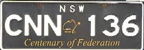 Australian vehicle number plate - New South Wales Picture taken by AYArktos